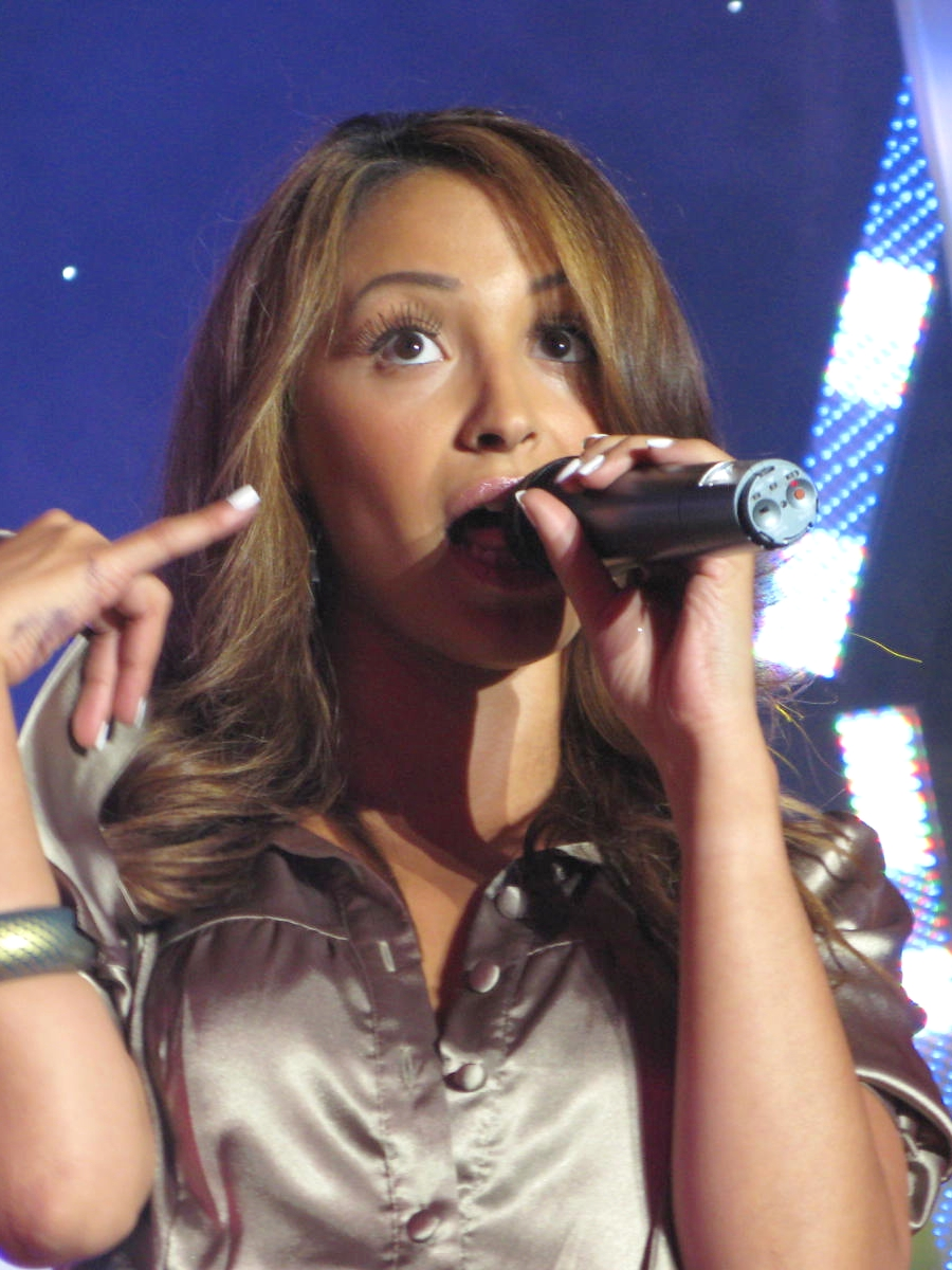 Amelle at Kidscape 2007